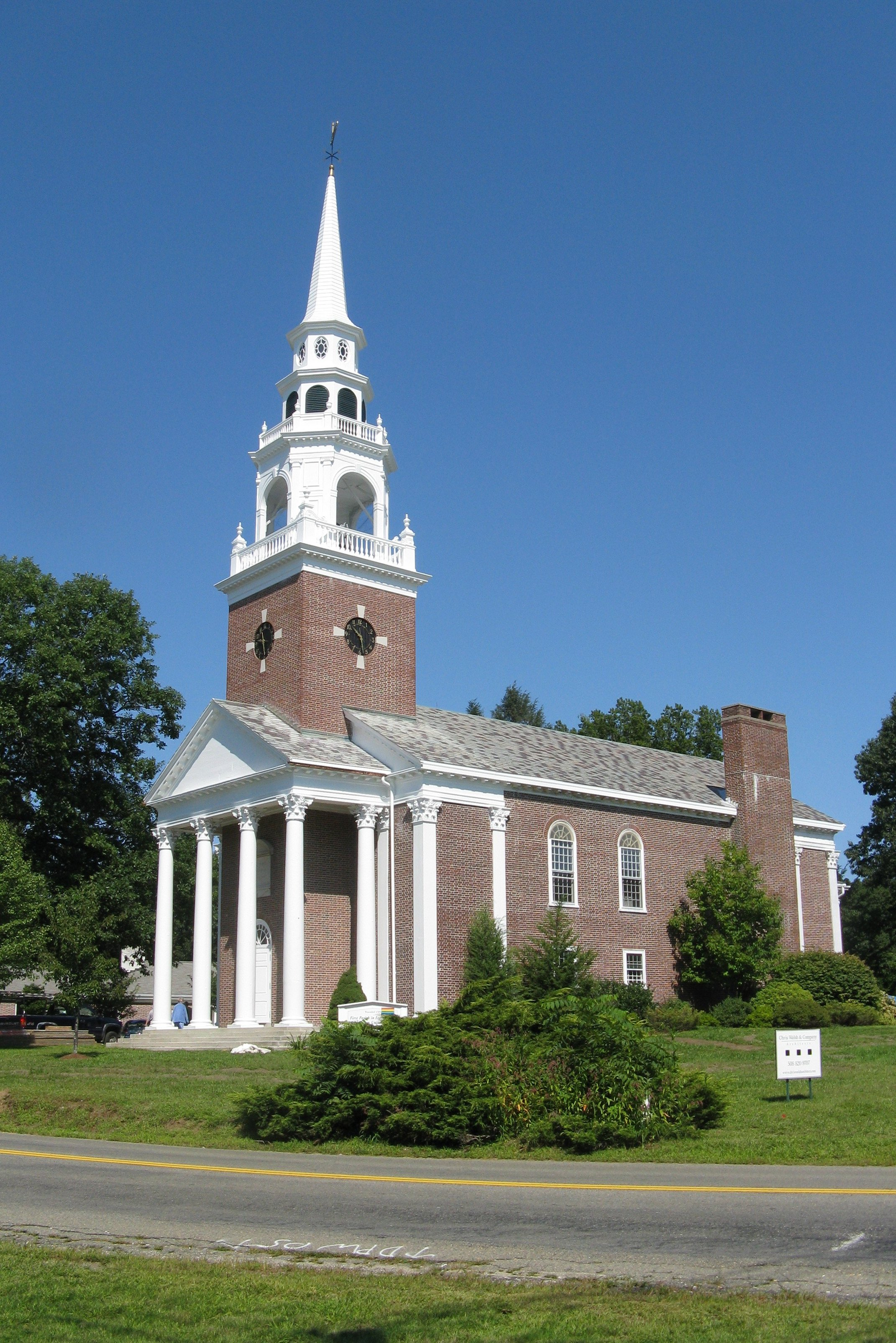 First Parish in Framingham Massachusetts